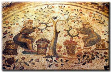 Piazza armerina, Garçons tressant des couronnes de roses,Cubicolo musici ed attori